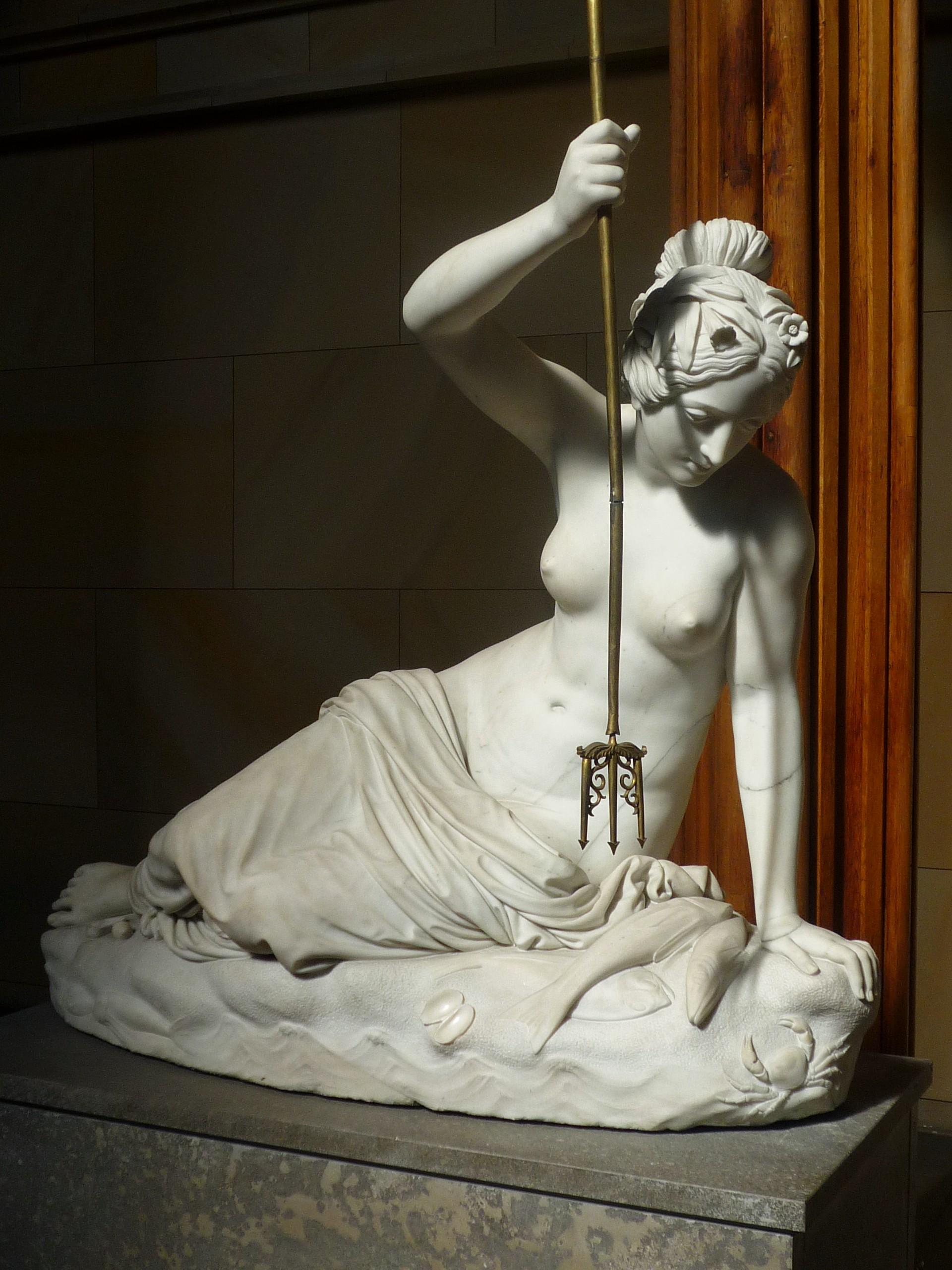 "Fischerin" (a fishing female), sculpture by Emil Wolff (1802-1879). Present location: "Friedrichswerdersche Kirche", today used as "Schinkelmuseum", in Berlin-Mitte.